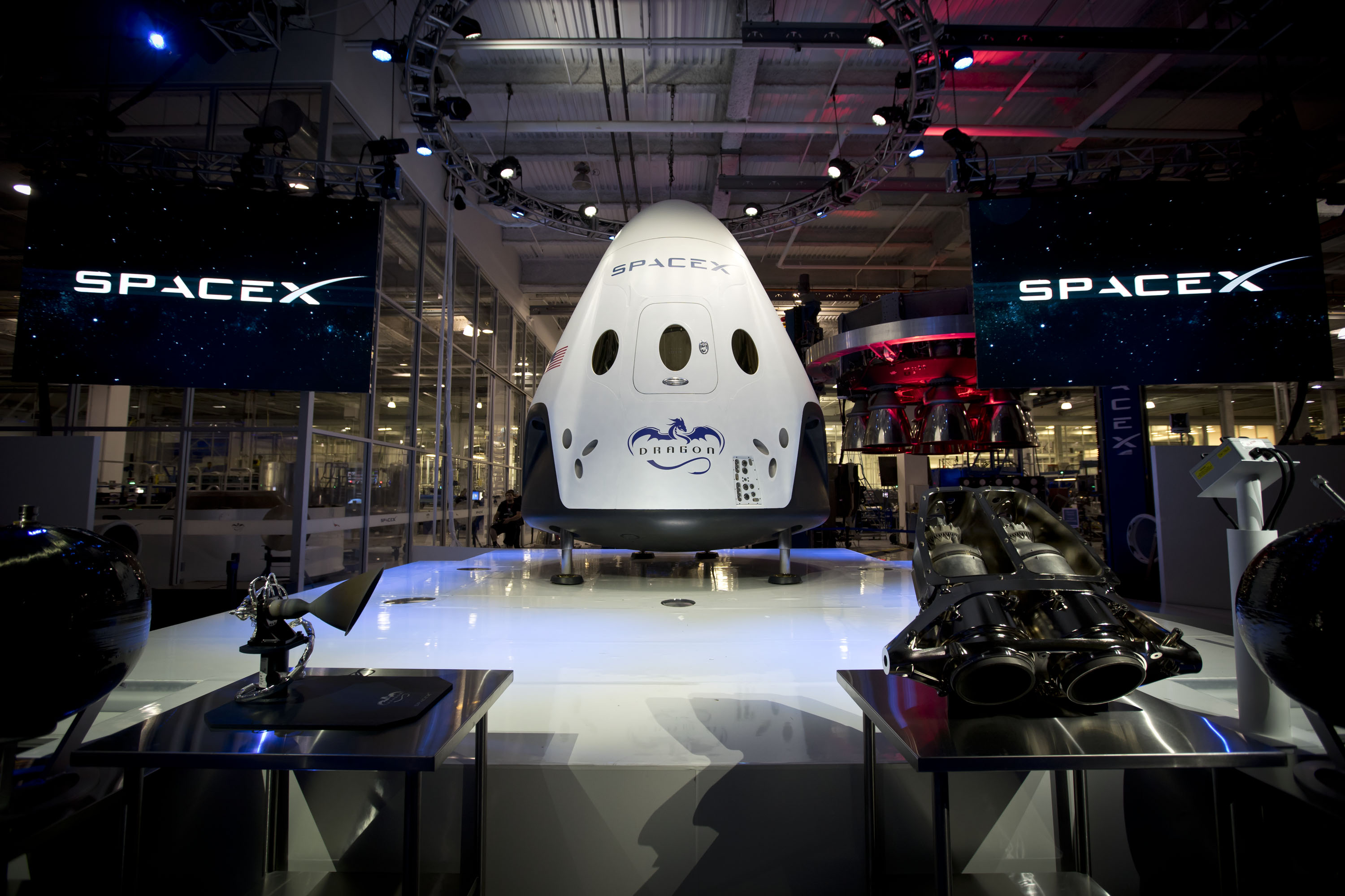 The SpaceX unveil event of Crew Dragon, the next generation spacecraft designed to carry astronauts to Earth orbit and beyond. The spacecraft will be capable of carrying up to seven crewmembers, landing propulsively almost anywhere on Earth, and refueling and flying again for rapid reusability. As a modern, 21st century manned spacecraft, Crew Dragon will revolutionize access to space.